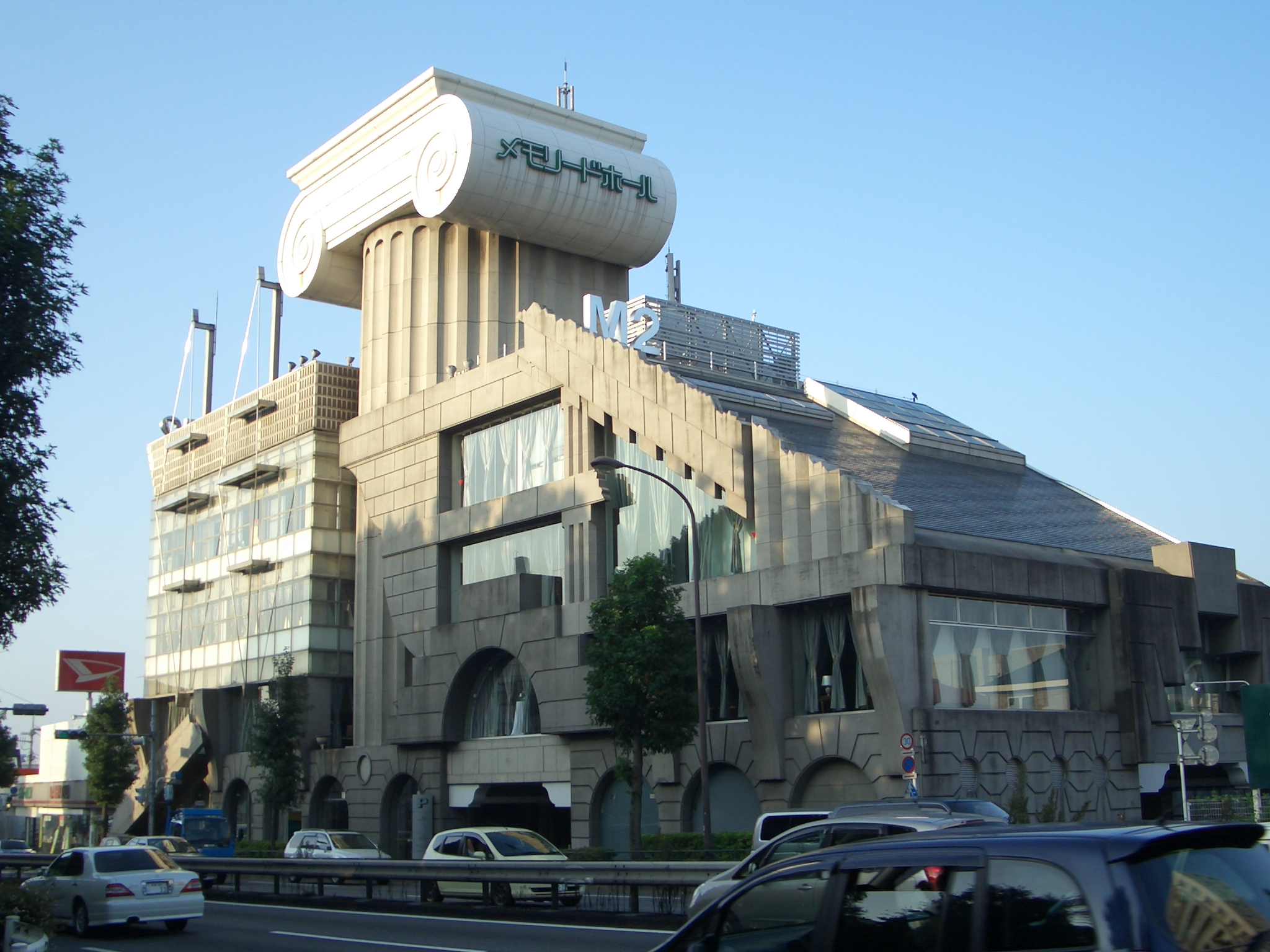 M2 Building